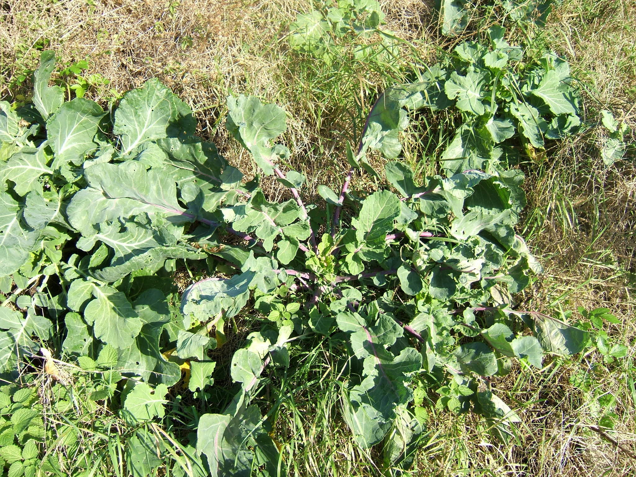 Brassica oleracea (Wild Cabbage) - naturalised population growing on seacliffs below a mediaeval monastery at Tynemouth, Northumberland, UK